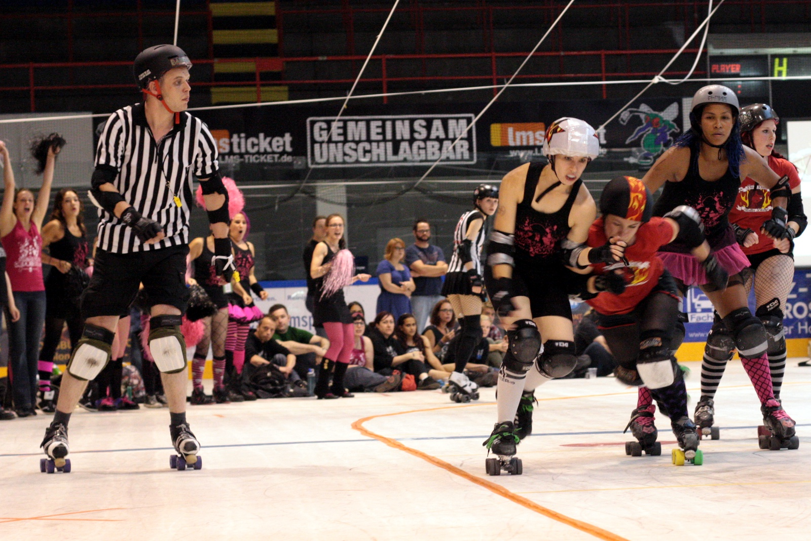 The Essen pivot is trying to push jammer Armorkillo of the ADD off the track (yellow line).